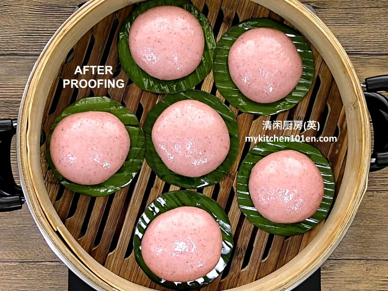 This is a picture of the traditional Hee Pan after rising.